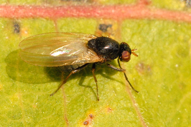 Calliopum simillimum from Commanster, Belgian High Ardennes .